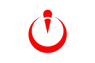 Flag of Manazuru Kanagawa